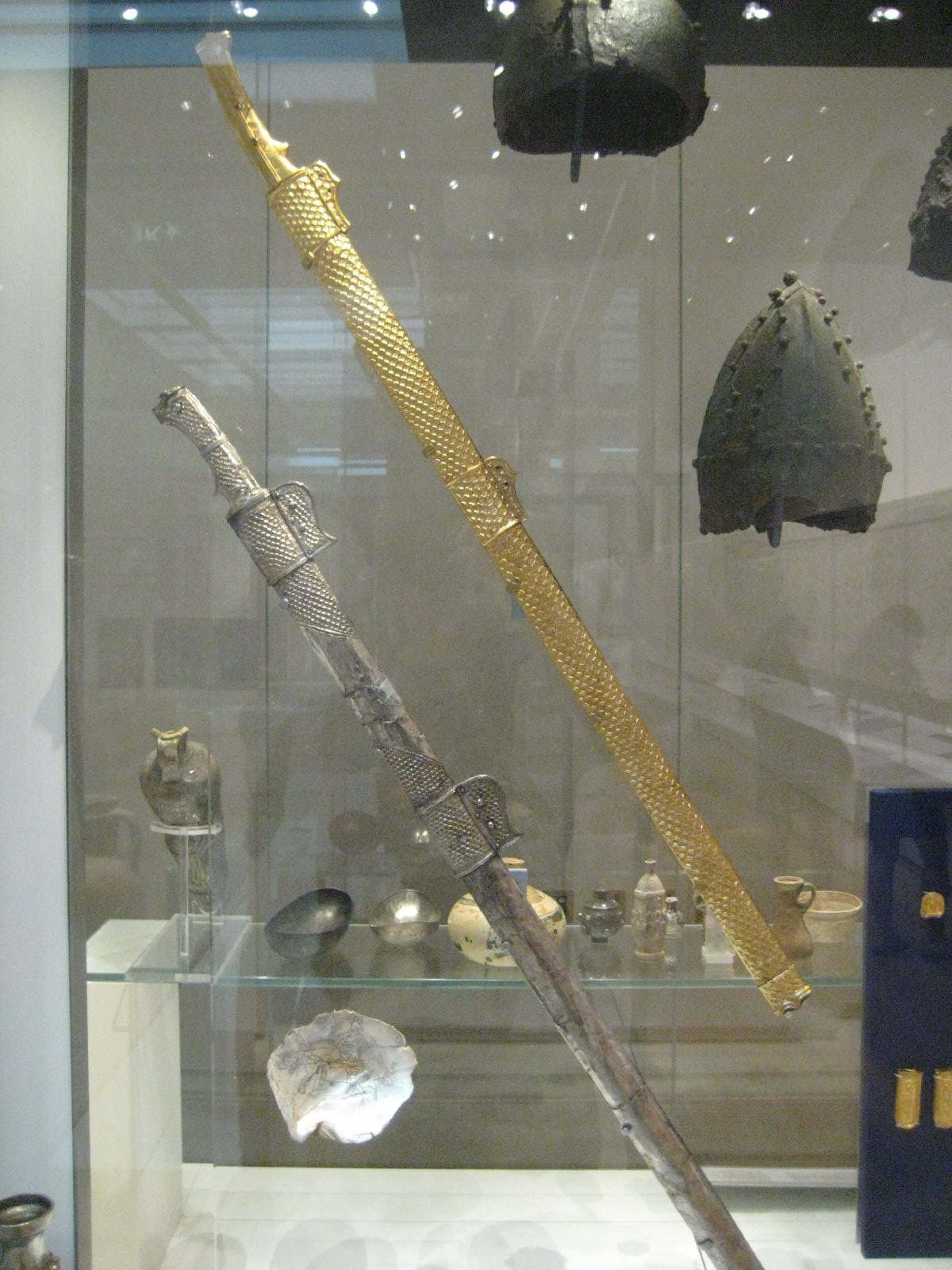 Sasanian Swords, about 6th - 7th century AD, Iran.